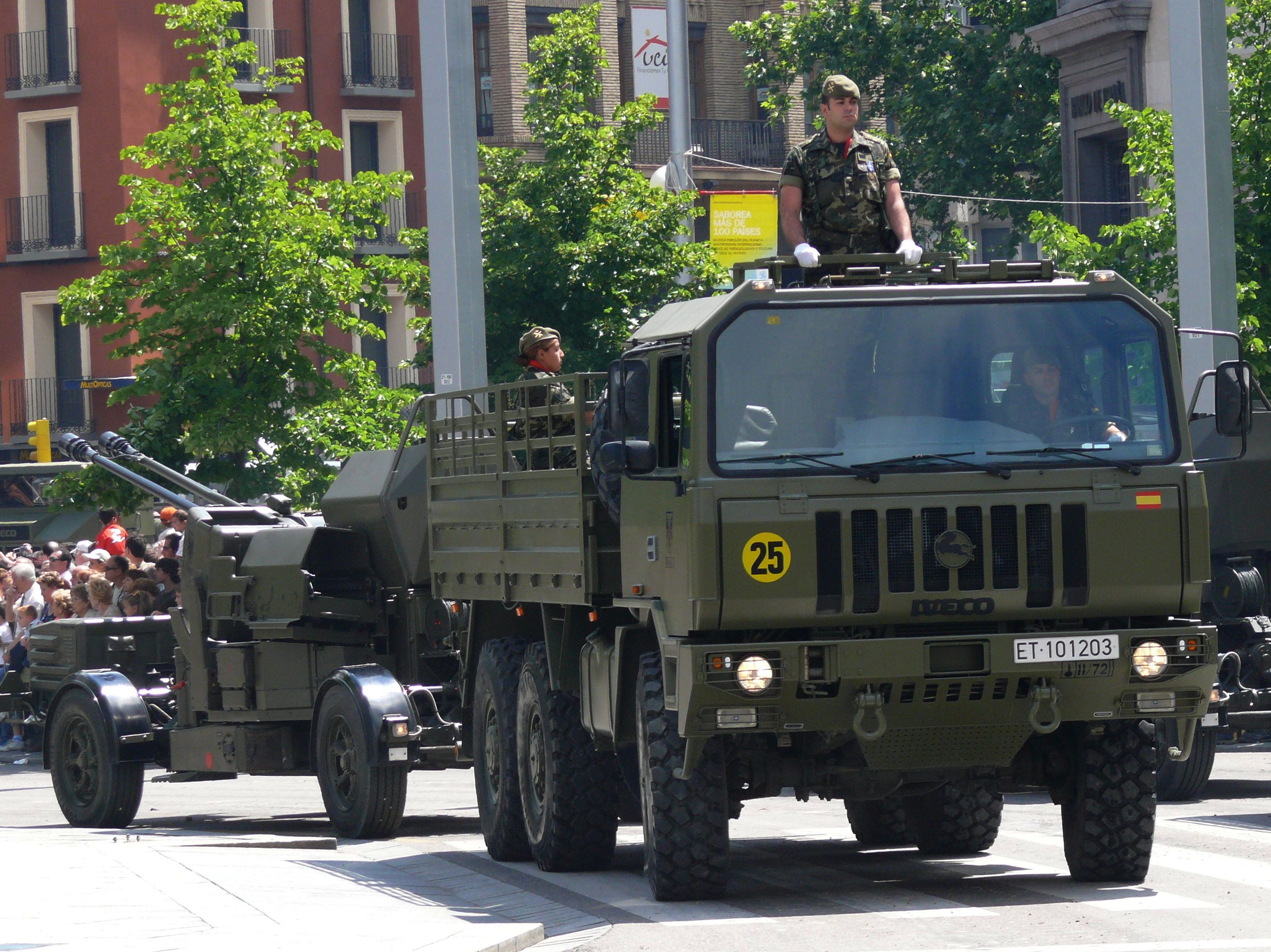 A Spanish Army truck which tows an AA gun.